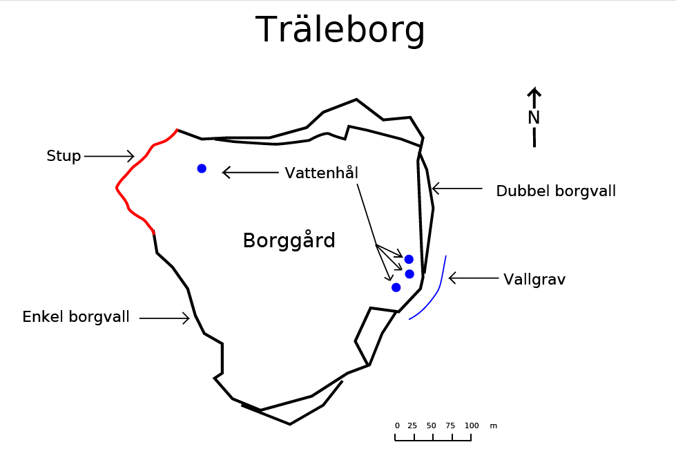 Sketch: Overview of the hill fort "Träleborg", Mösseberg, Falköping, Sweden